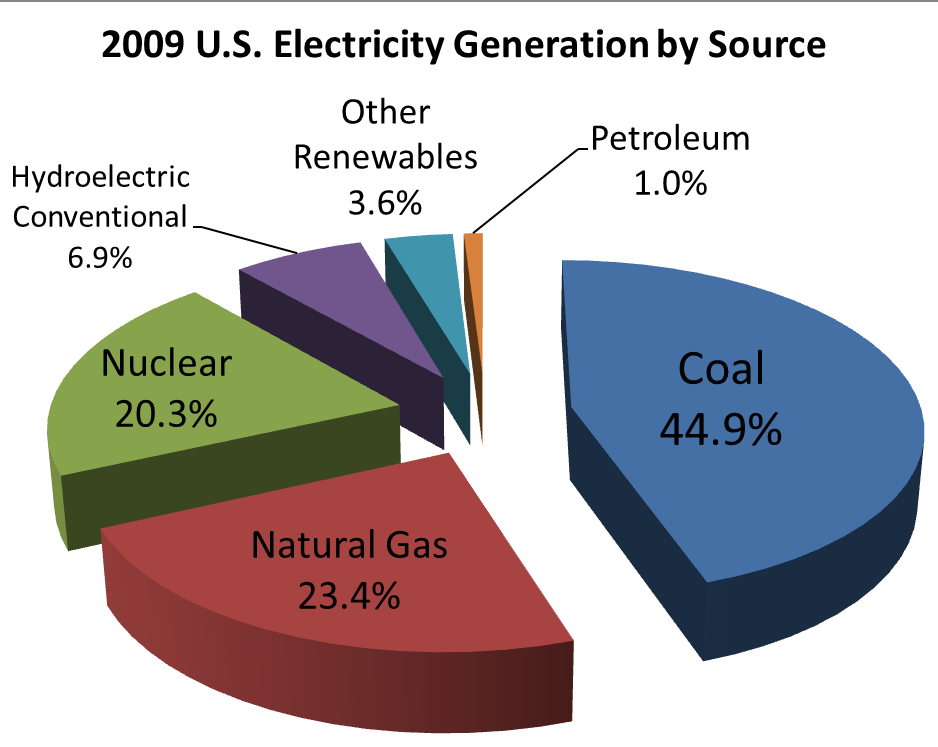 2009_US_electricity_generation_by_wierdness. Created with excel and gimp.